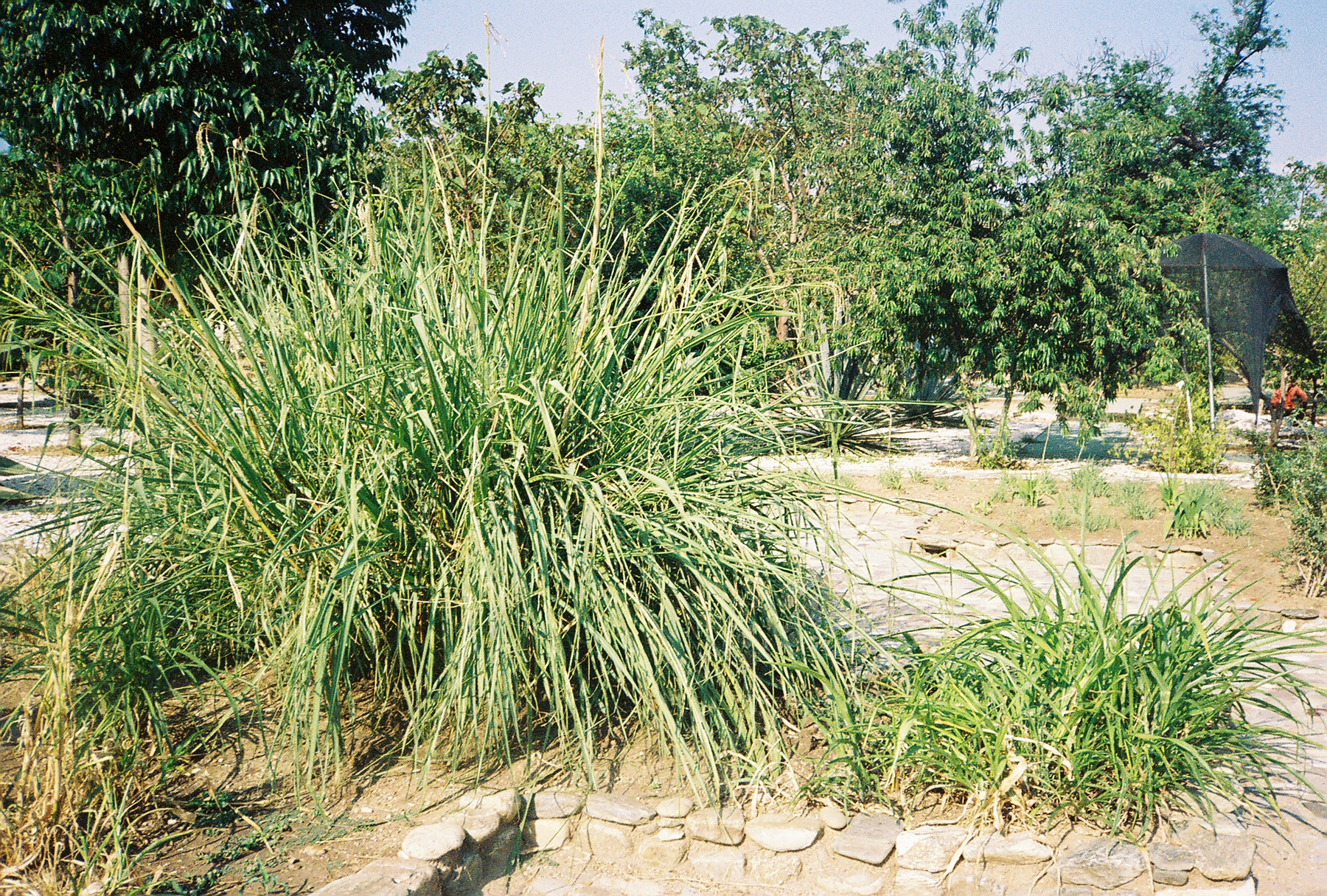 A Tripsacum grass (big) and an annual teosinte (small), according to one theory the species hybridized to create maize (though the idea that Tripsacum was involved is now apparently discredited). Jardín Etnobotánico (Ethnobotanical Garden), Oaxaca, Oaxaca, Mexico, June 2005. Sorry, I didn't check what species or varieties they were; the identification is according to William Sullender, who saw the same plants. I hope someone identifies them to species (or gets a better picture). —JerryFriedman 21:26, 27 March 2006 (UTC)